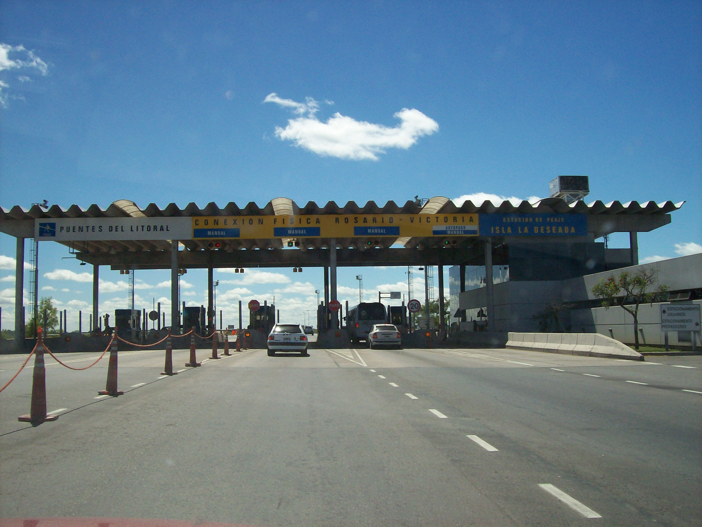 Toll gate at the Rosario-Victoria bridge.